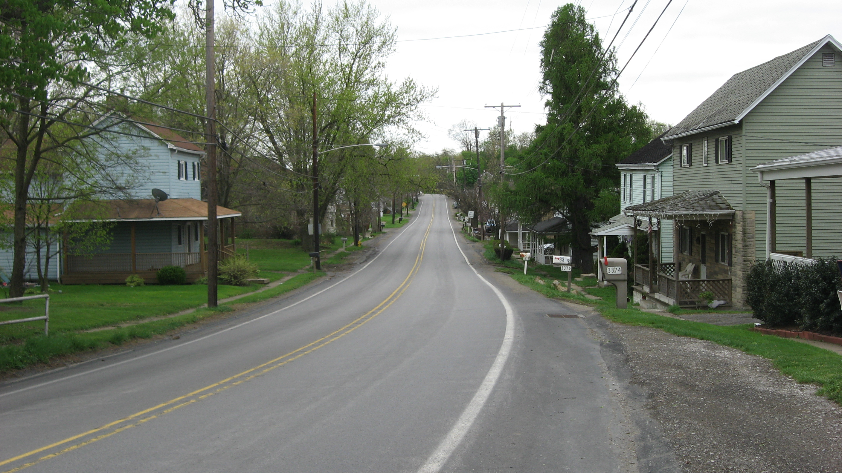 Southward along Pennsylvania Route 18 in Frankfort Springs, Pennsylvania, United States.